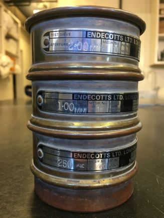 soil sieve nest stacked on one another